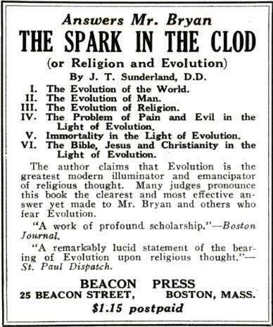 Advertisement found in the July 1923 edition of the Crisis Magazine.